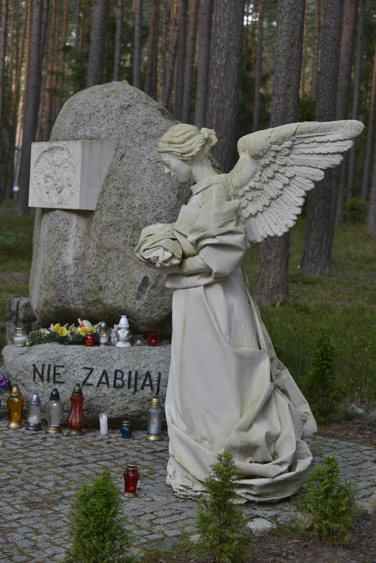 Element of the memorial in Piaśnica forest.